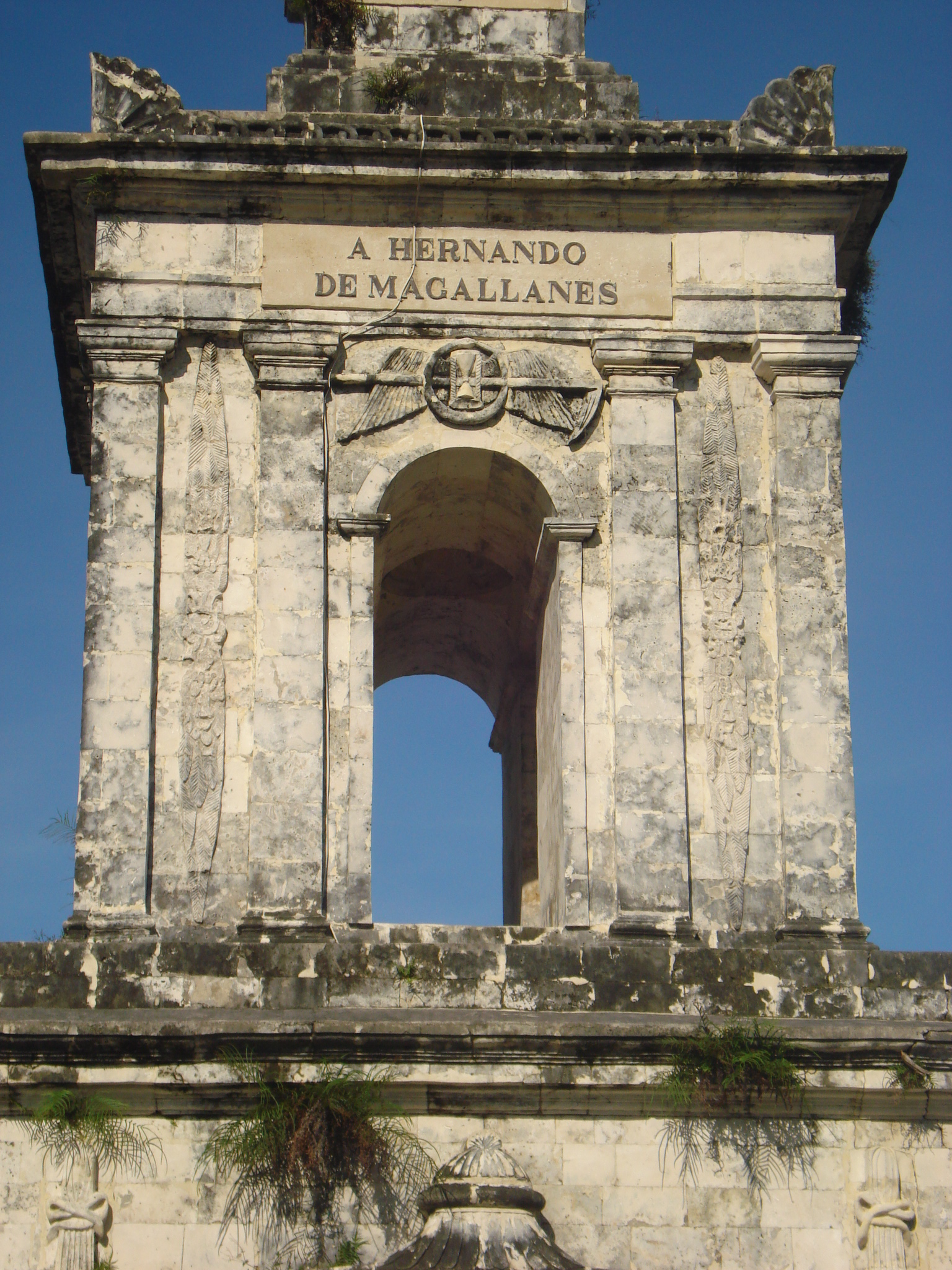 Lapu-Lapu shrine, Mactan Shrine Tower 2